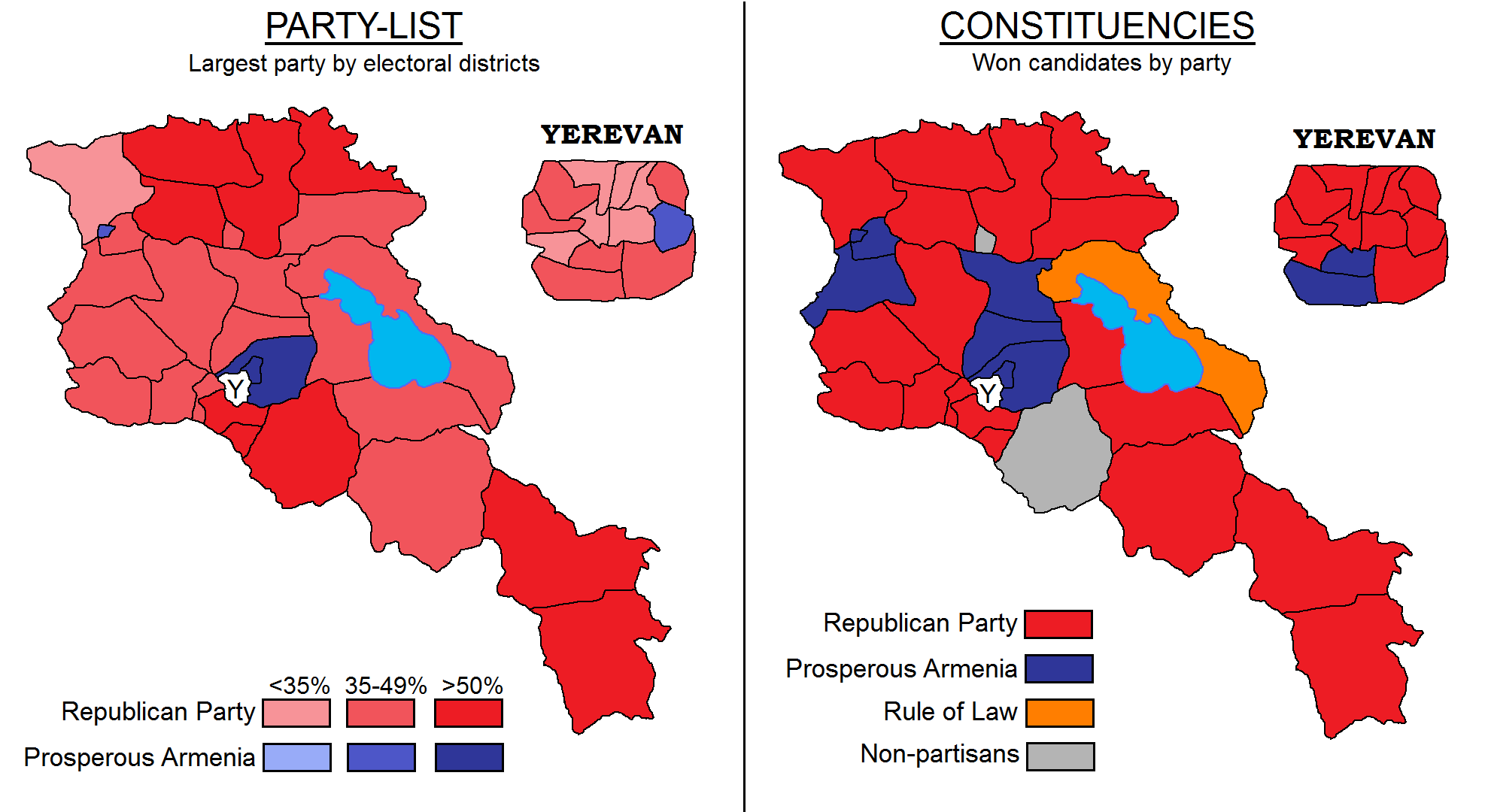 The results of 2012 Armenian parliamentary election by electoral districts.